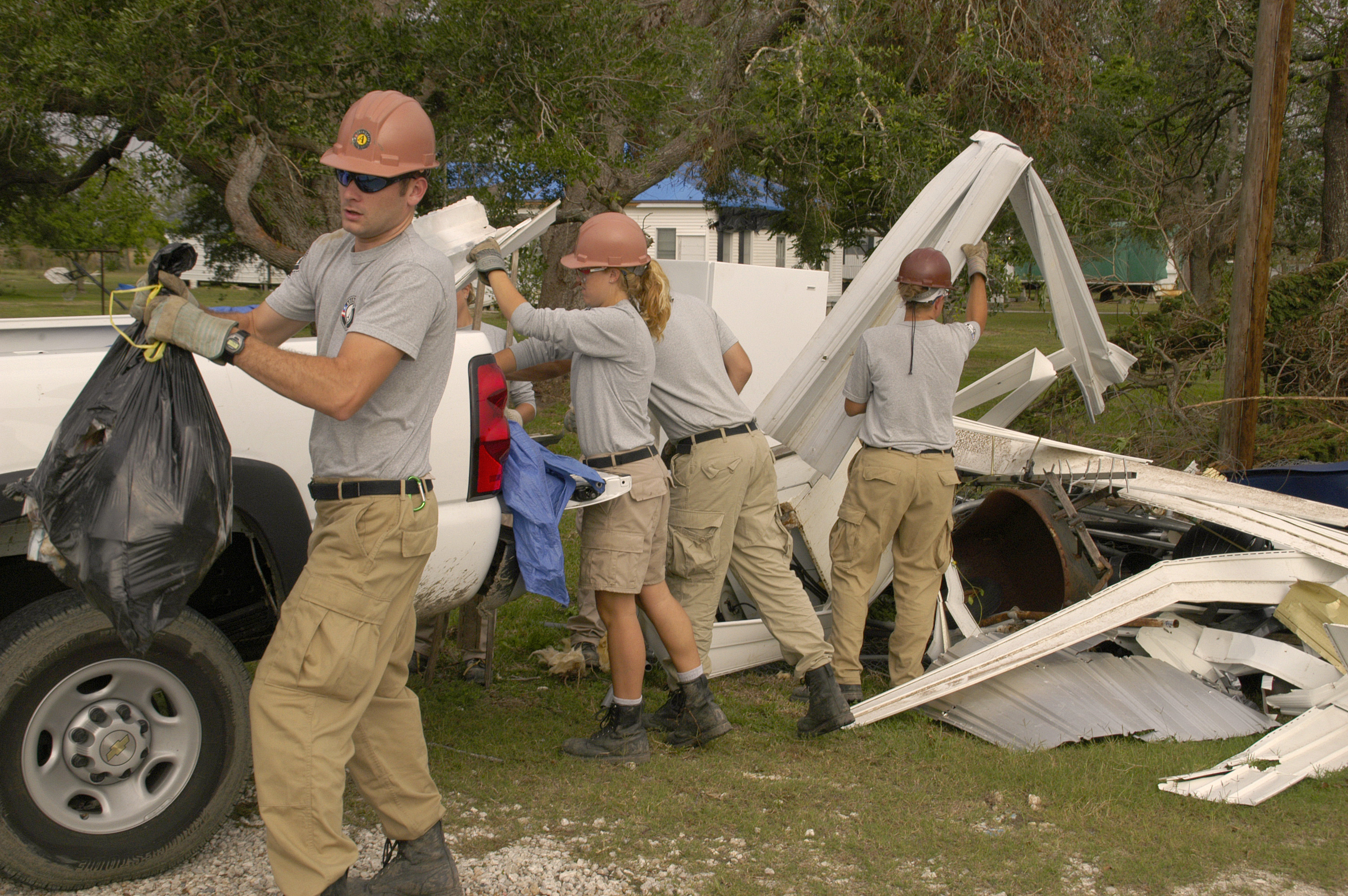 Cameron, LA, 11-11-05 -- AmeriCorps volunteers Greg Lucid, Komal Soin, Kelly Asplin, & Casey Schoemeberger pile debris from a yard in their truck for removal to a debris pick up location. AmeriCorps volunteers are an important FEMA partner that provide needed services to victims by clearing debris and helping other vounteer agencies. MARVIN NAUMAN/FEMA photo